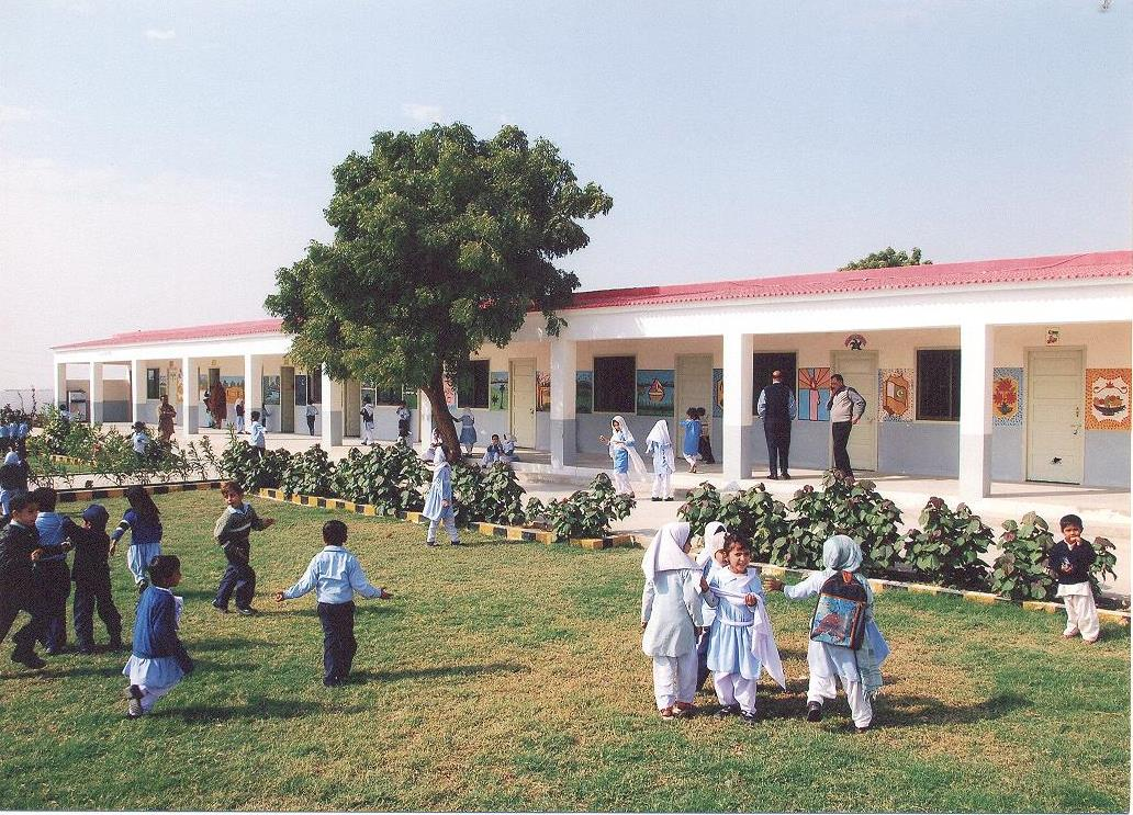 The Indus Middle School, Dhabeji,Thatta District,Sindh,Pakistan